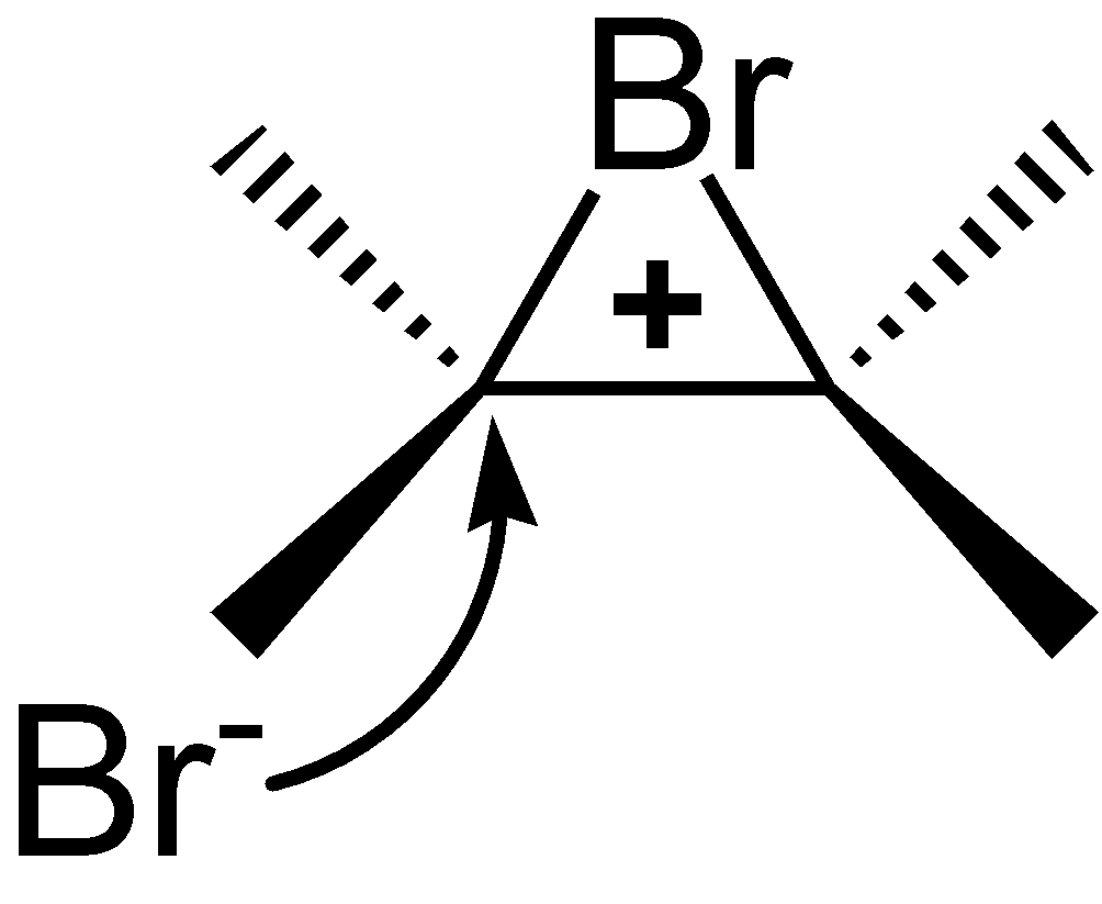 anti-addition of bromine to an alkene